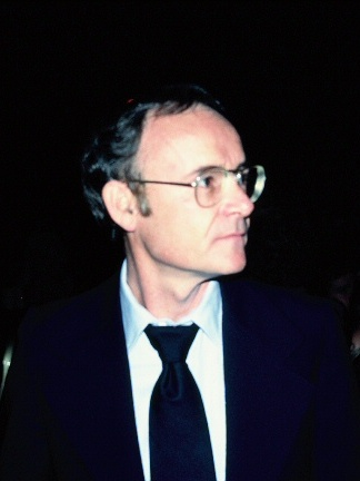 Photo taken at the private party after the premiere of the movie FIST, 1978 - Permission granted to copy, publish or post but please credit "photo by Alan Light" if you can